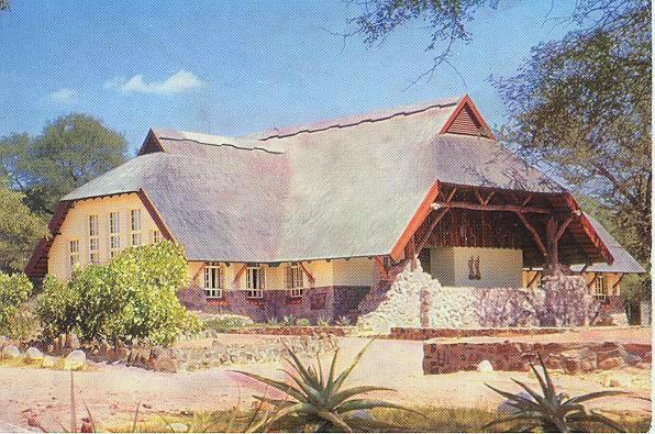 The Stevenson-Hamilton Memorial Library in Skukuza, Kruger National Park, Mpumalanga, South Africa